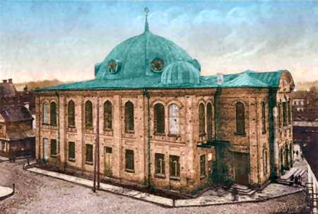 The great Synagogue of Bialystok - Poland - Built in 1909/1913 and destroyed by the nazis in 1941